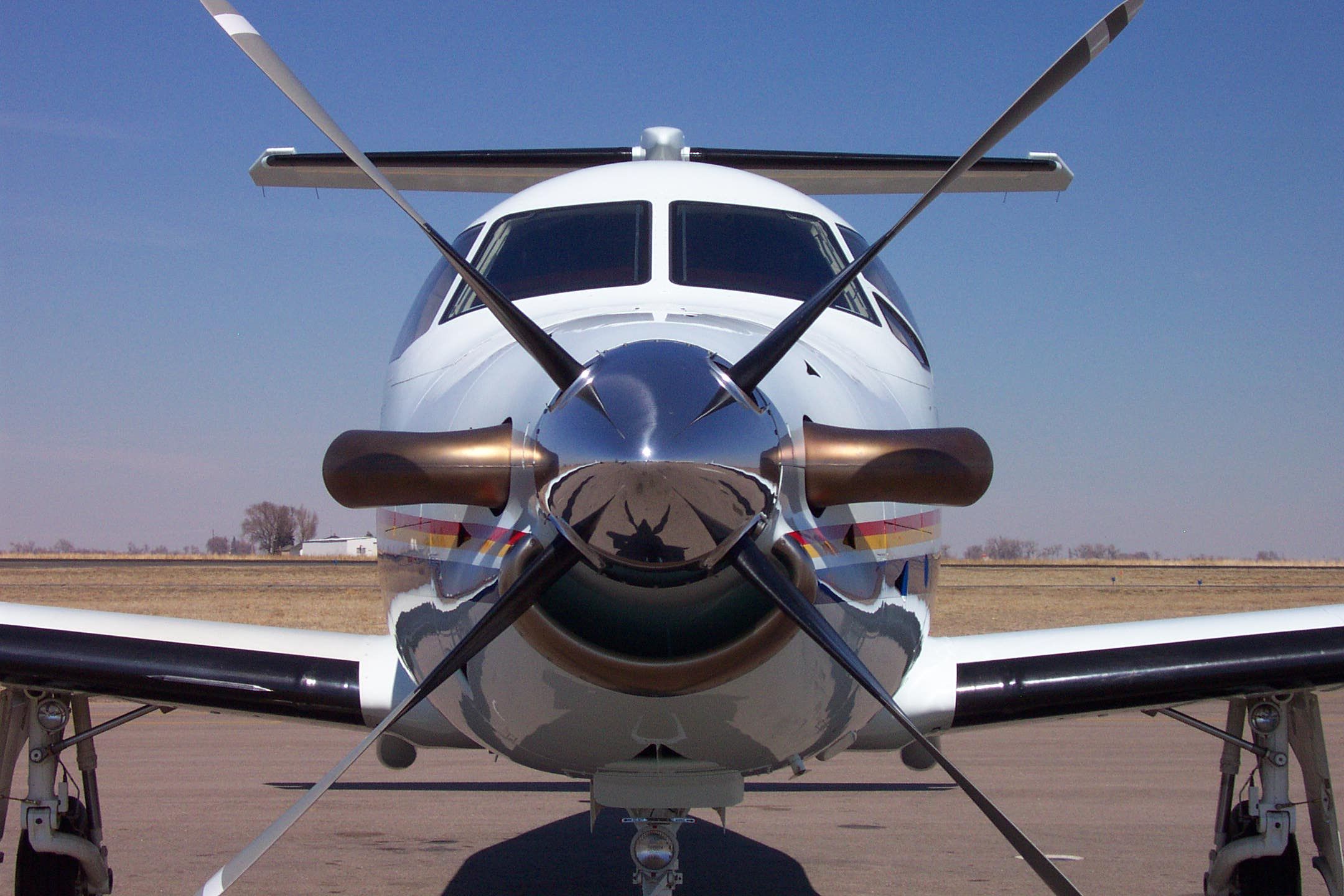 Royal Canadian Mounted Police Pilatus PC-12, Winnipeg c. 2007